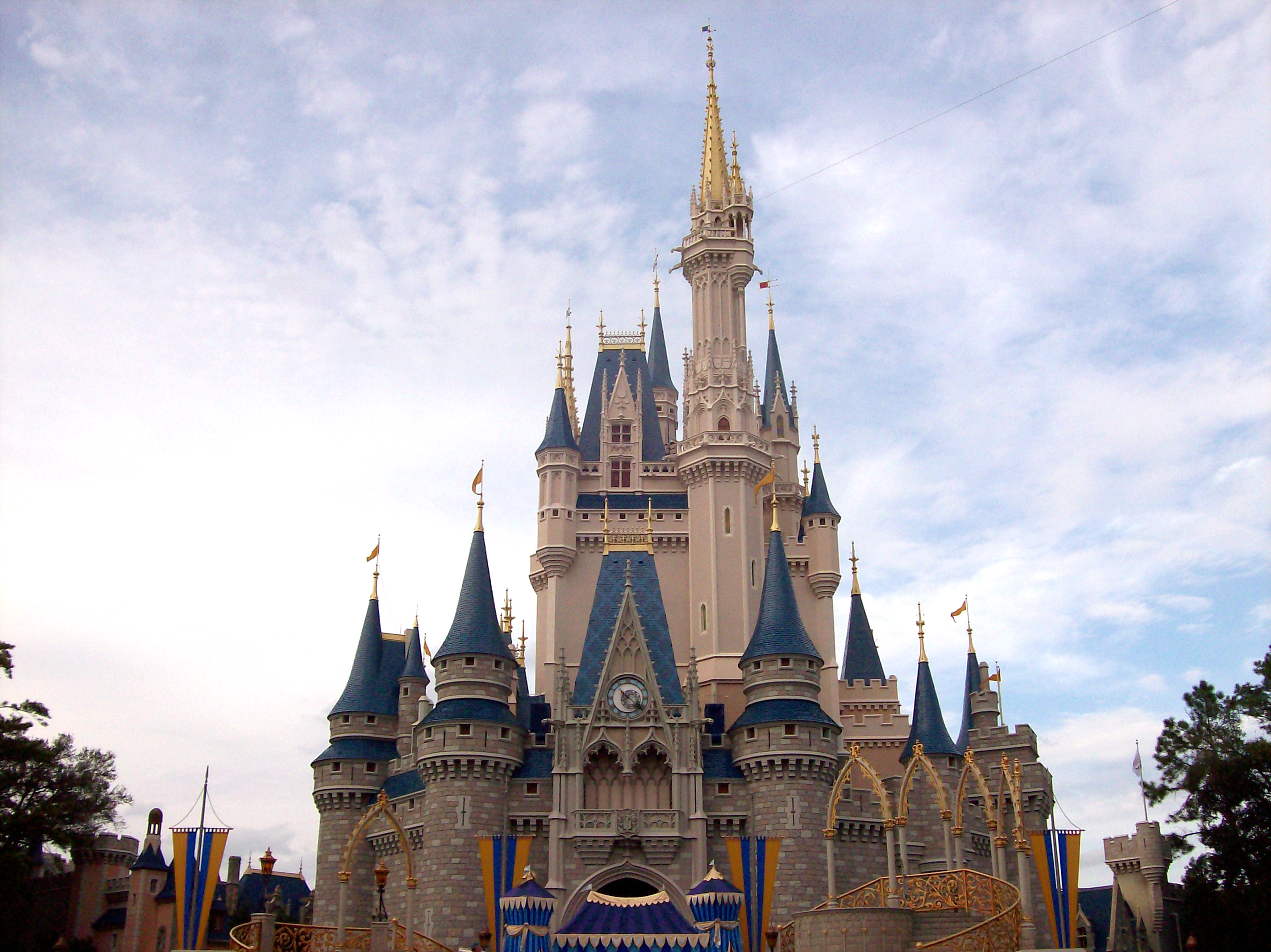 Cinderella Castle at the Magic Kingdom, Walt Disney World Resort